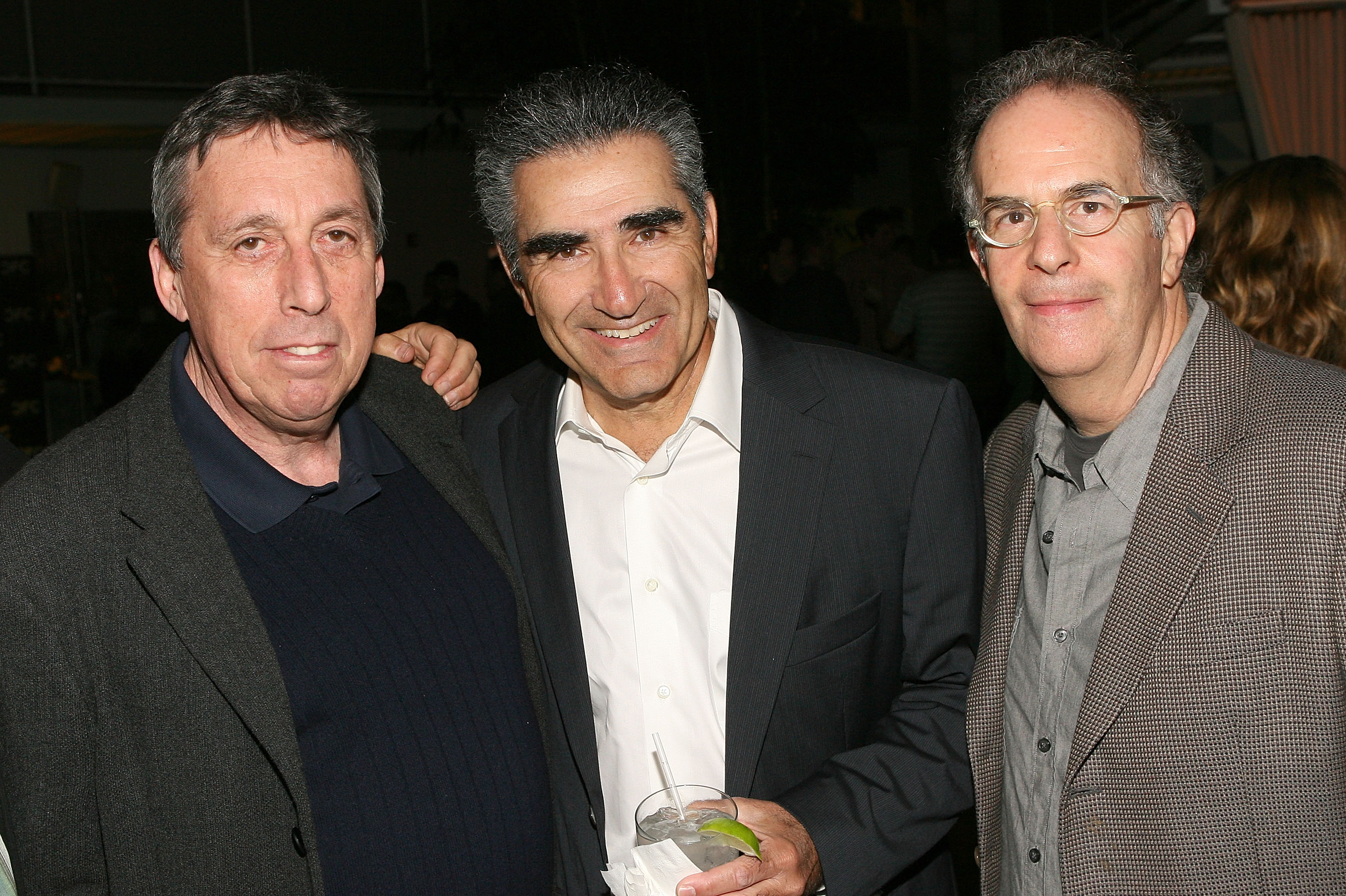 Director Ivan Reitman, actor Eugene Levy and producer Daniel Goldberg attend The Canadian Film Centre cocktail reception celebrating the Telefilm Canada Features Comedy Lab held at Avalon Hotel on March 9, 2011 in Beverly Hills, California.